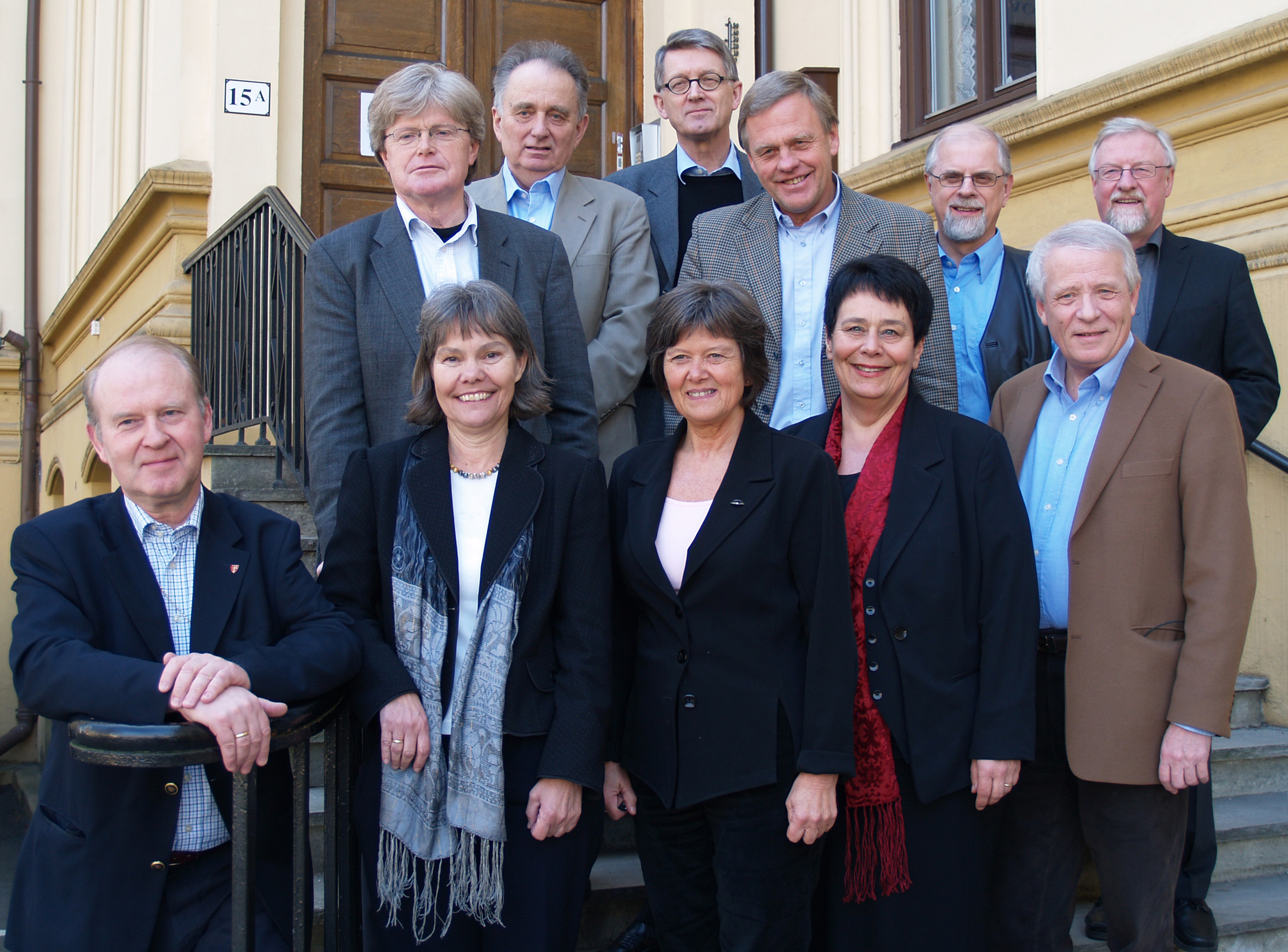 The 11 bishops of The Church of Norway, gathered for their spring meeting; march 2007